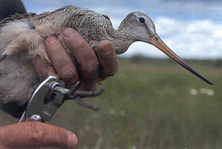 Banding of a marbled godwit on Bowdoin NWR. Credit: Kathy Tribby/USFWS